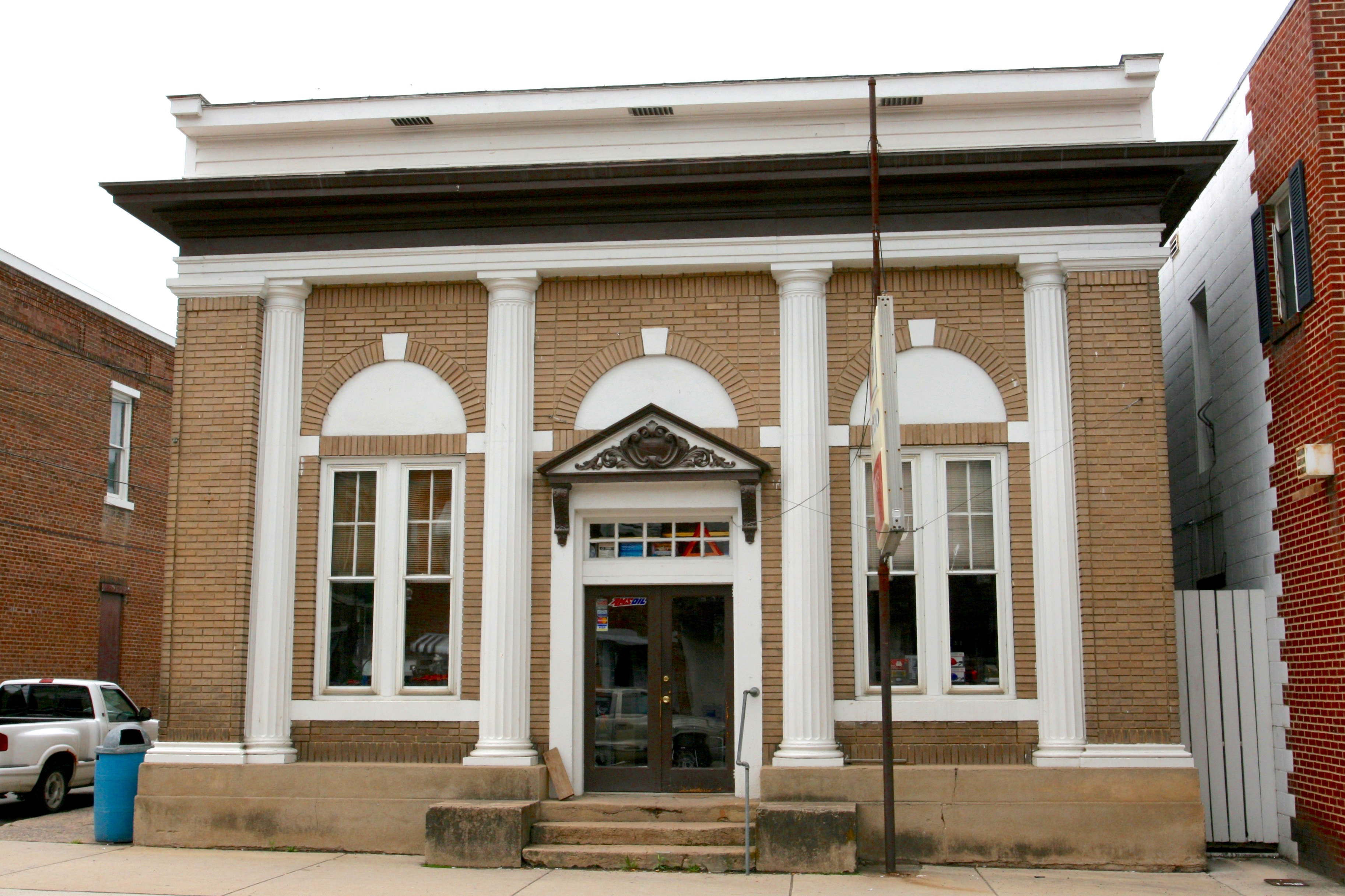 The former Bank of Franklin building in Franklin, West Virginia